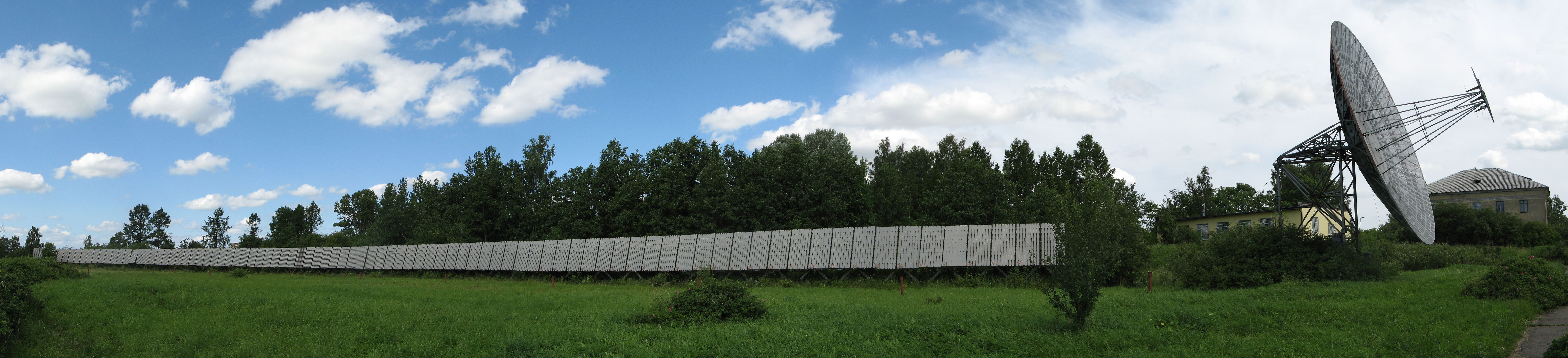 Large Pulkovo Radio Telescope